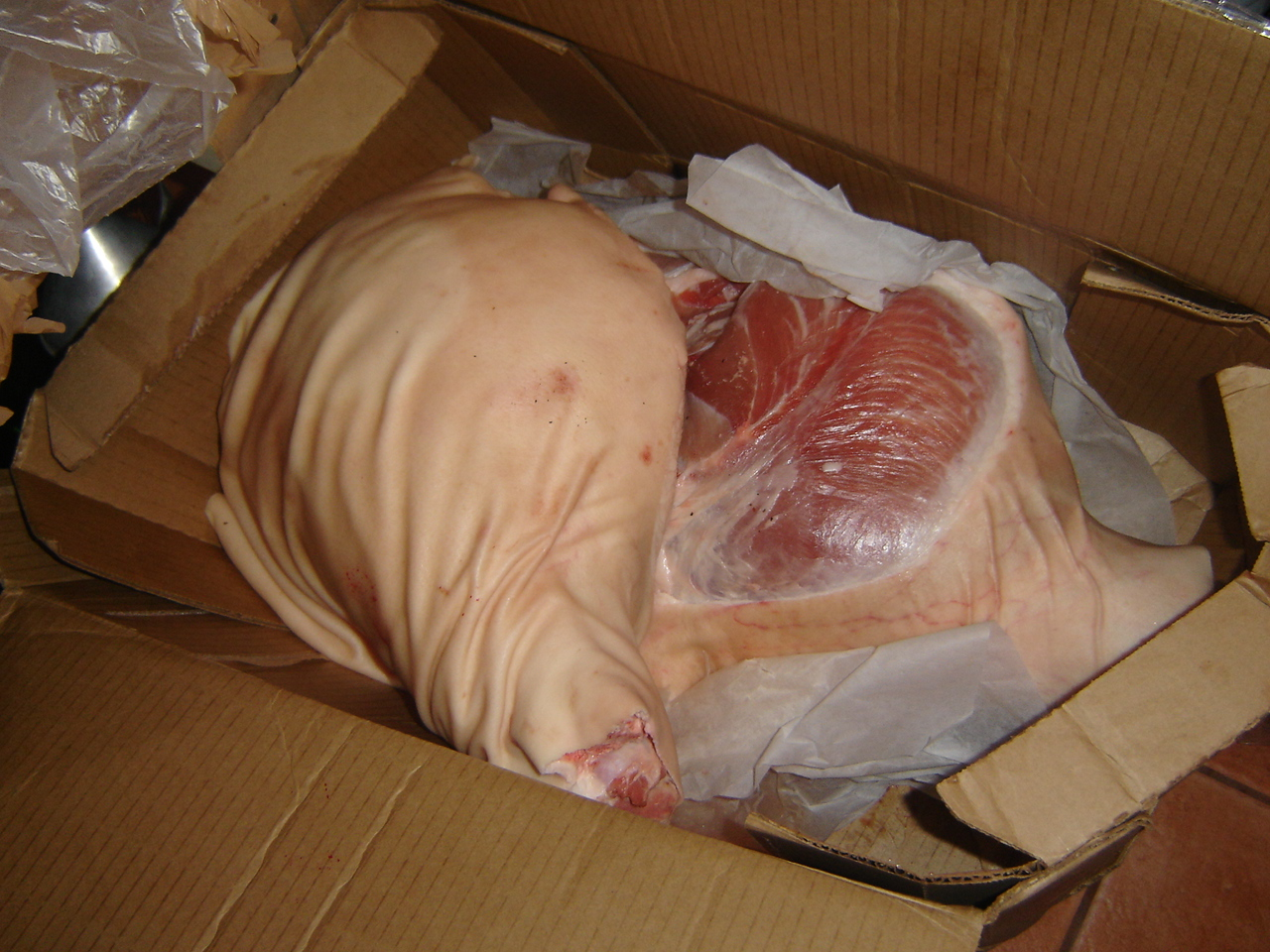 Prosciutto legs before curing. Photo taken February 2007 by Deathworm 05:03, 1 May 2007 (UTC)